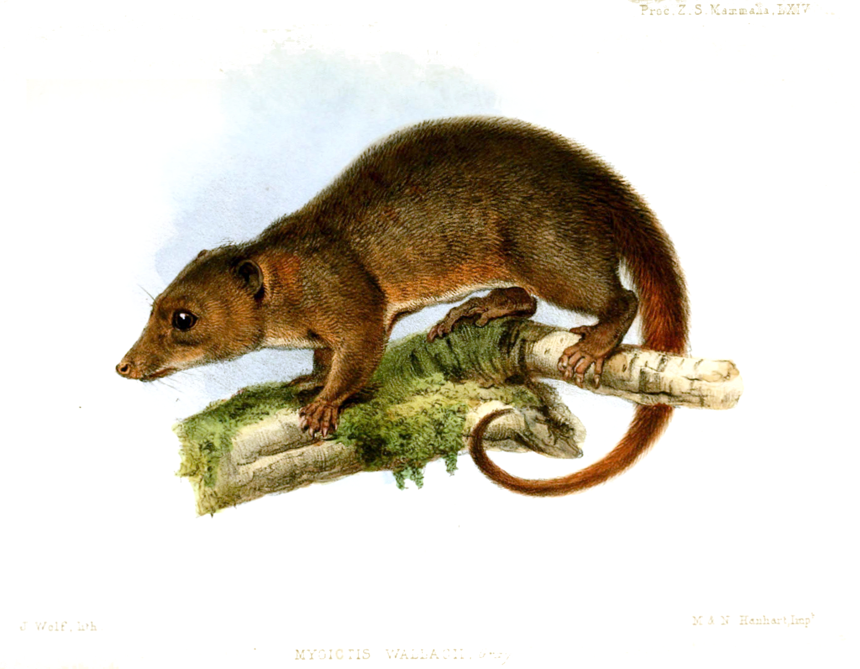 Myoictis wallacei, syn. Myoictis wallacii